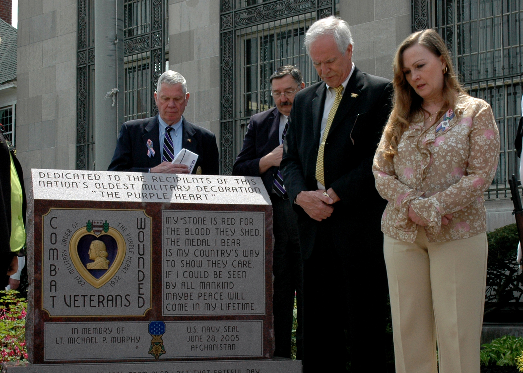 Caption provided by USN: 080507-N-4245W-125 PATCHOQUE, N.Y. (May 7, 2008) John and Maureen Murphy, parents of Lt. Michael P. Murphy, listen to a benediction prayer during a ceremony outside the Michael P. Murphy Post Office. The ceremony, held on Murphy's birthday, recognized his heroic actions during Operation Red Wing, and included the unveiling of a Purple Heart monument outside the post office. Murphy was posthumously awarded the Medal of Honor for his actions in Afghanistan and will have the guided-missile destroyer USS Michael Murphy (DDG 112) named in his honor. (Note: A USN biography states the Murphy's brother is named John while his father's name is Daniel indicating that the Navy may have miscaptioned this image.[1]}